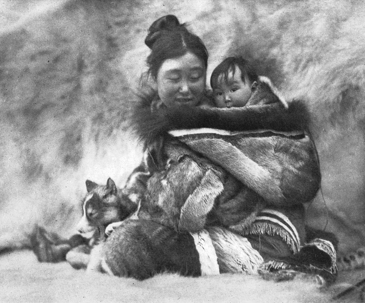 Print, Nyla (Nanook's wife in the film) & child, Cape Dufferin, QC, 1920-21, Robert J. Flaherty, Ink on paper - Copper-plate process - 27 x 35 cm